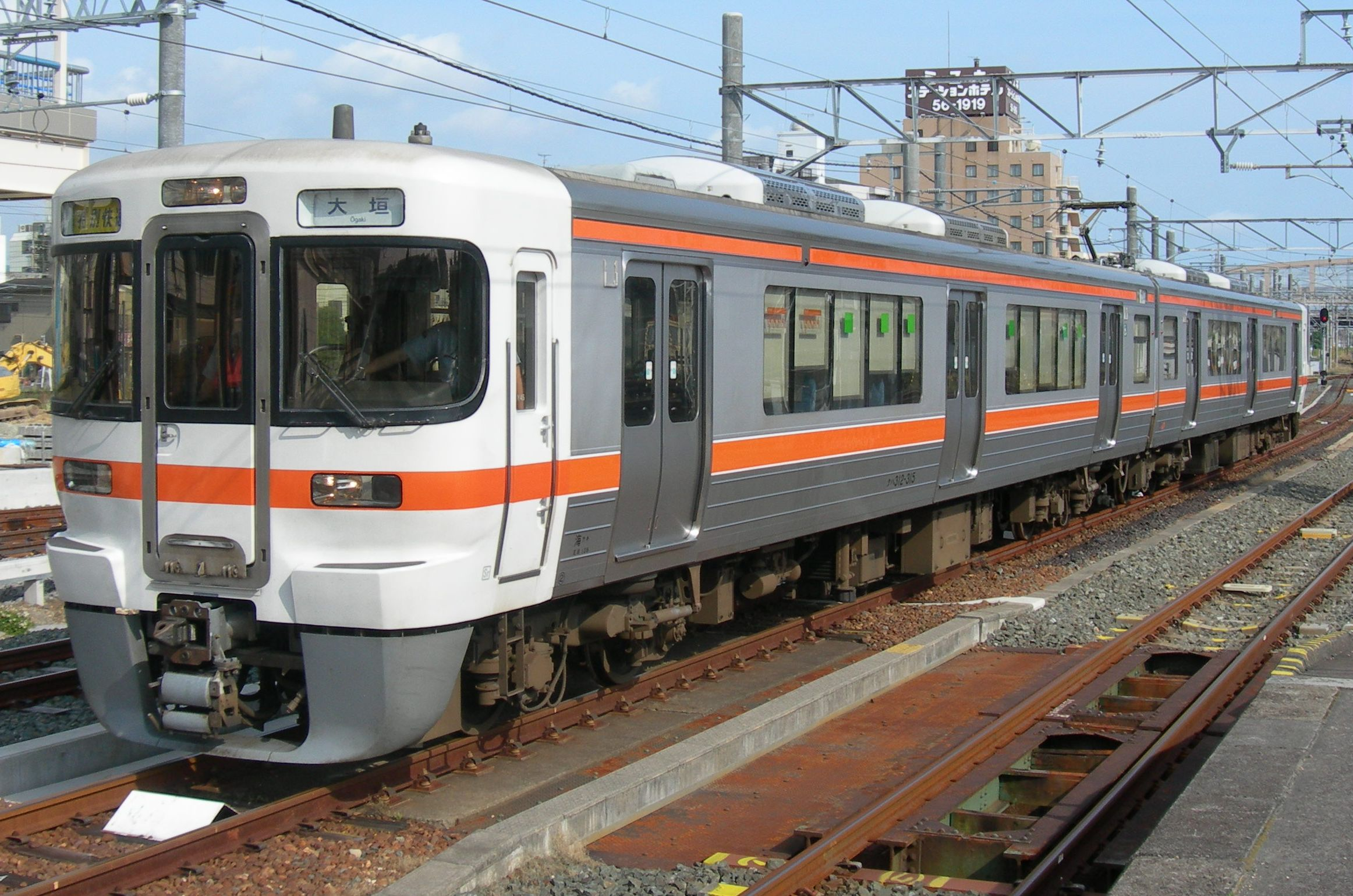 JR Central 313-300 series 2-car EMU set Y45 at Toyohashi Station